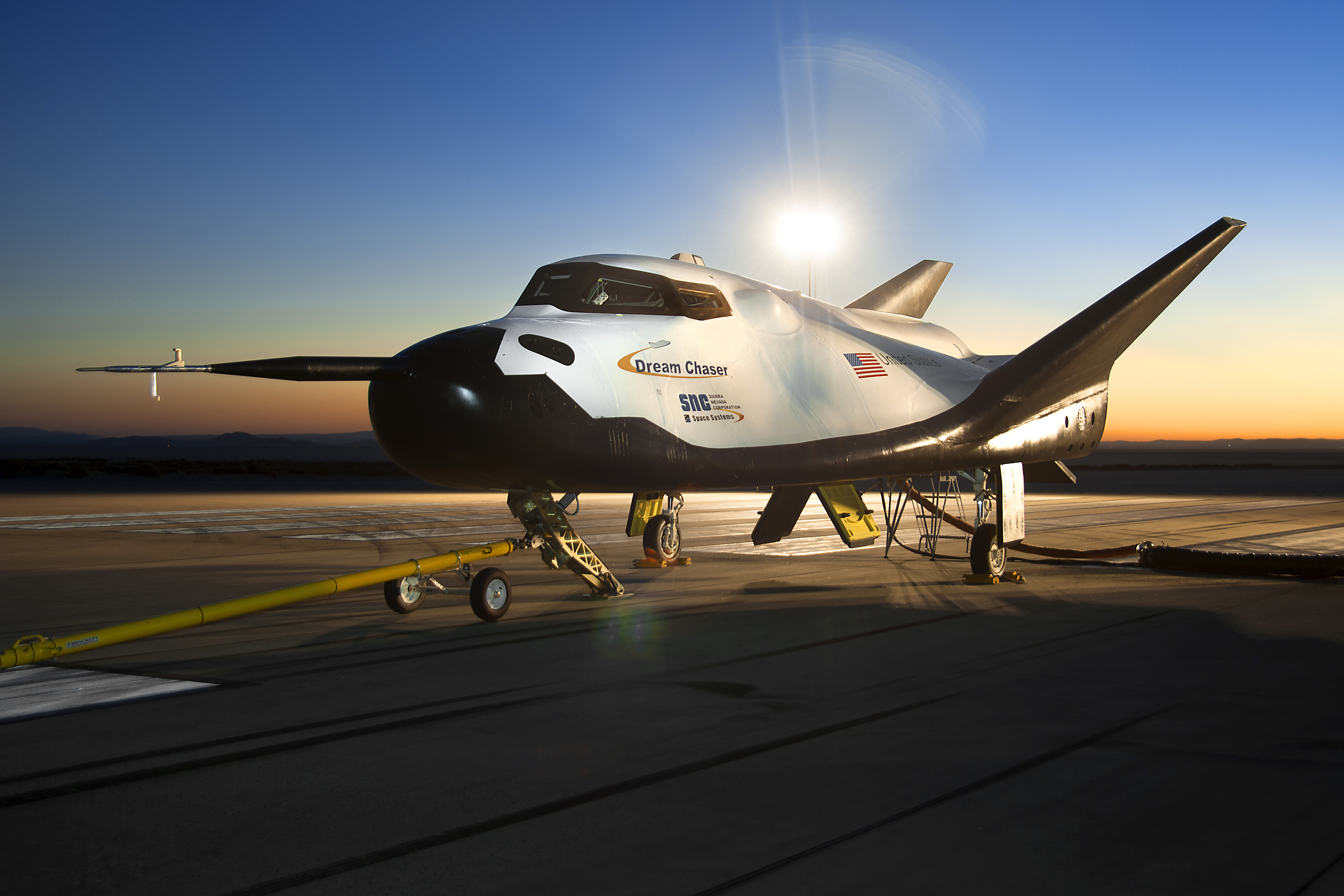 Edwards, Calif. – ED13-0266-023- The Sierra Nevada Corporation, or SNC, Dream Chaser flight vehicle is prepared for 60 mile per hour tow tests on taxi and runways at NASA's Dryden Flight Research Center at Edwards Air Force Base in California. Ground testing at 10, 20, 40 and 60 miles per hour is helping the company validate the performance of the spacecraft's braking and landing systems prior to captive-carry and free-flight tests scheduled for later this year. SNC is continuing the development of its Dream Chaser spacecraft under the agency's Commercial Crew Development Round 2, or CCDev2, and Commercial Crew Integrated Capability, or CCiCap, phases, which are intended to lead to the availability of commercial human spaceflight services for government and commercial customers.